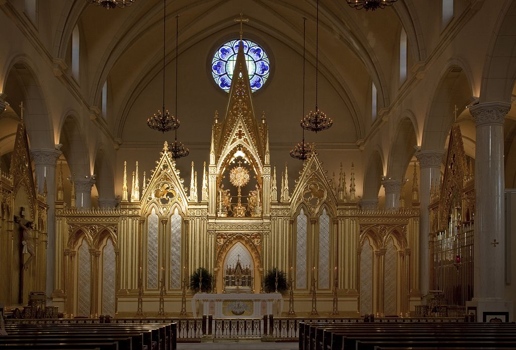 Shrine of the Most Blessed Sacrament of Our Lady of the Angels Monastery, Hanceville, Alabama